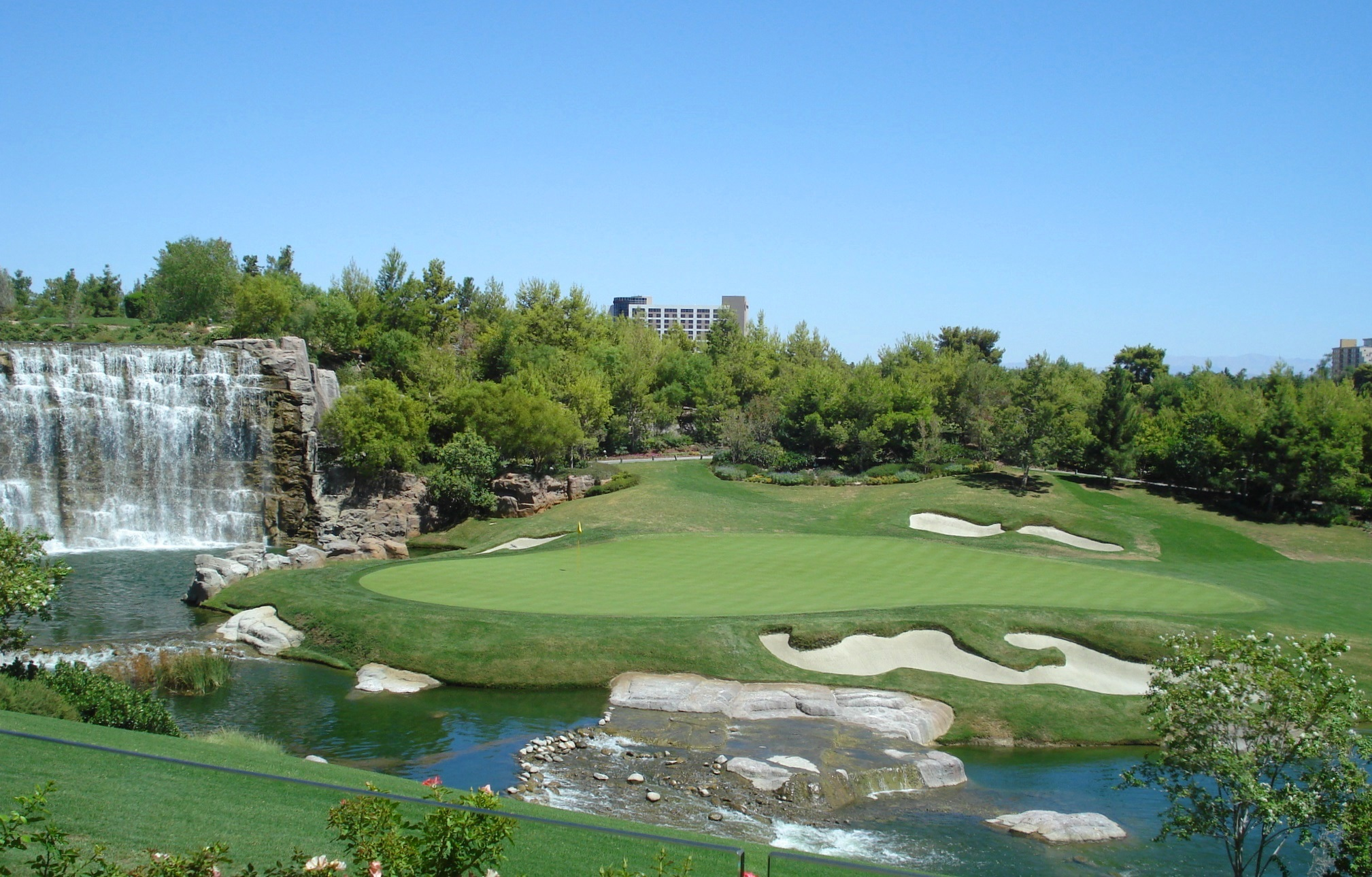 View of golf course at The Wynn in Las Vegas, NV.